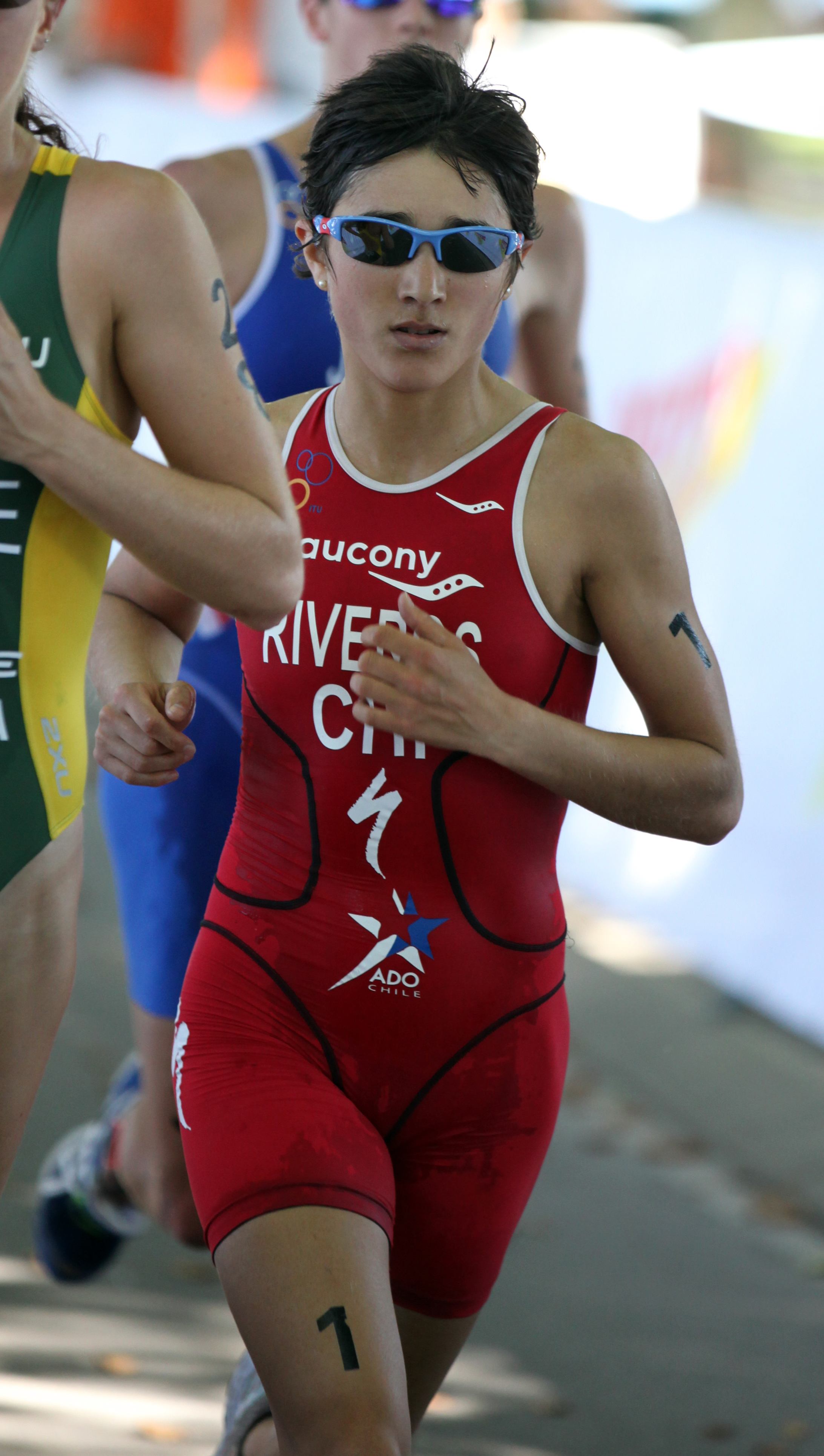 Bárbara Riveros Díaz at the Triathlon Sprint World Championships in Lausanne.